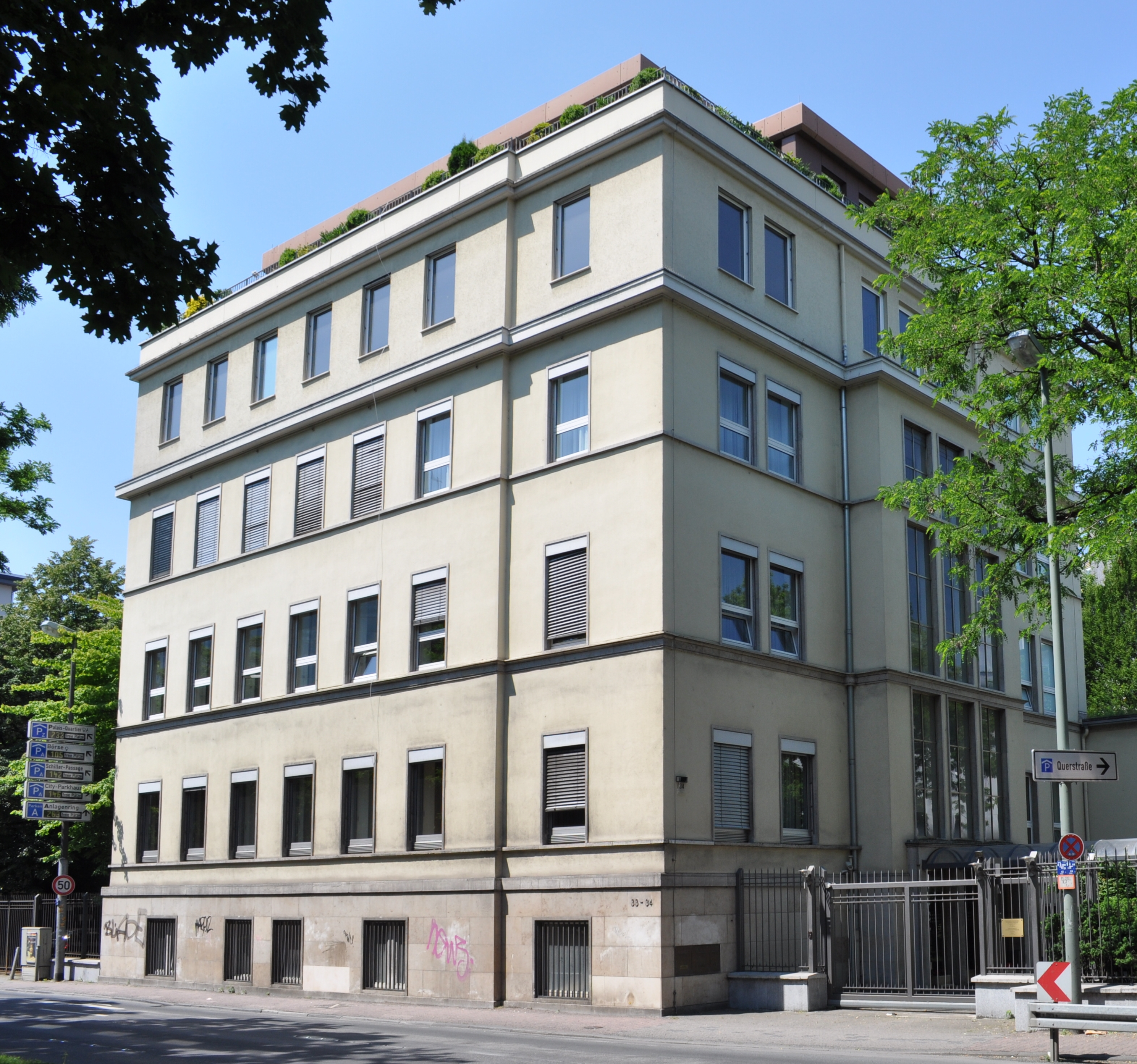 Consulate General of Russian Federation in Frankfurt on Main